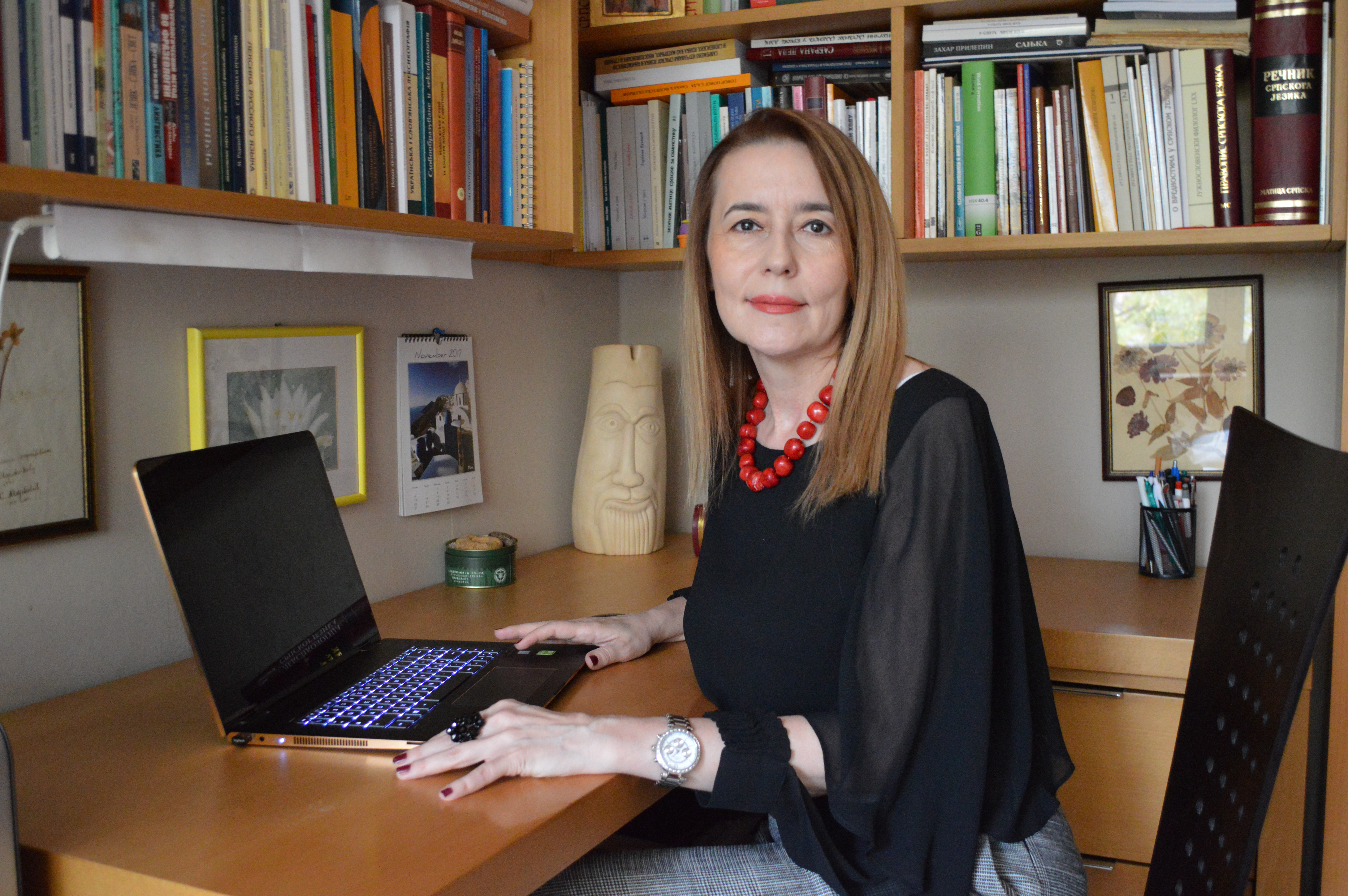 Prof. Rajna Dragicevic, PhD